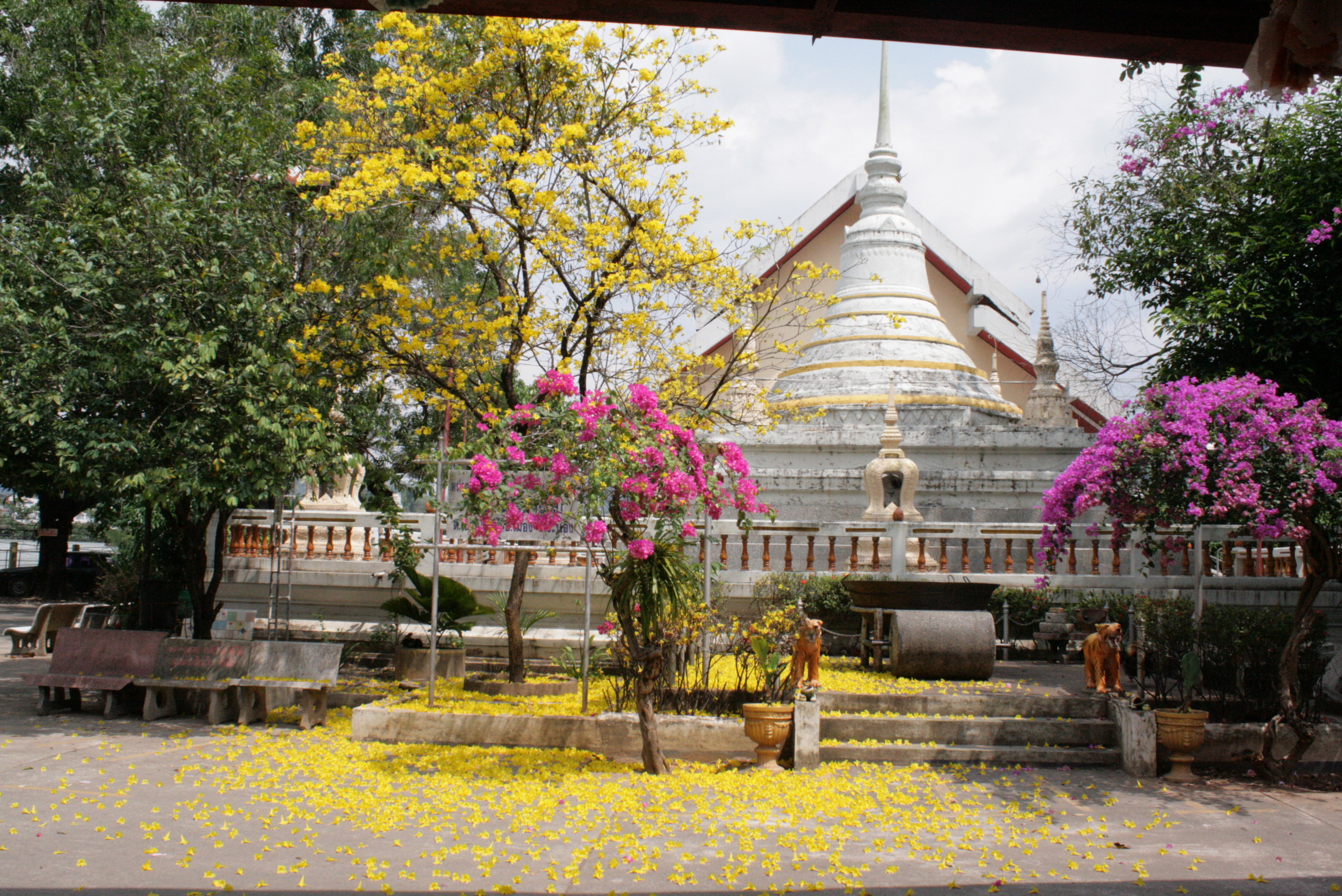 Chedi des Wat Upanantaram, Ranong, Ranong province, southern Thailand